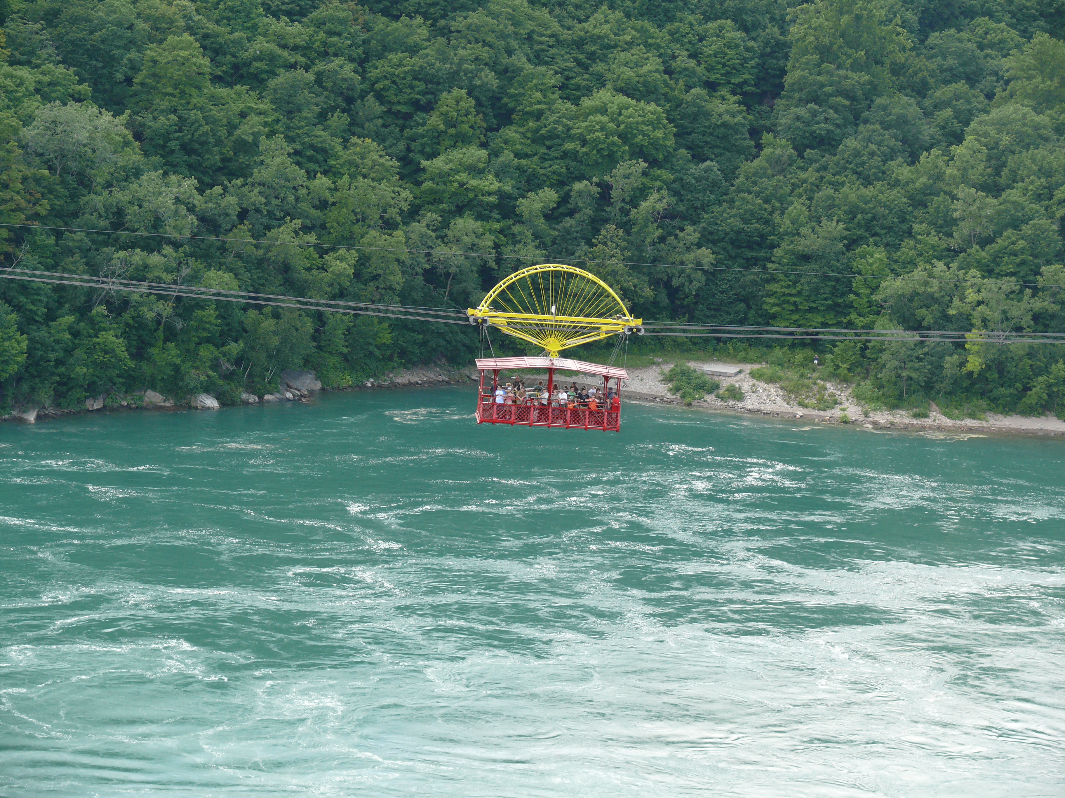 Whirlpool on the Niagara River, just past Niagara falls with Whirlpool Aero Car